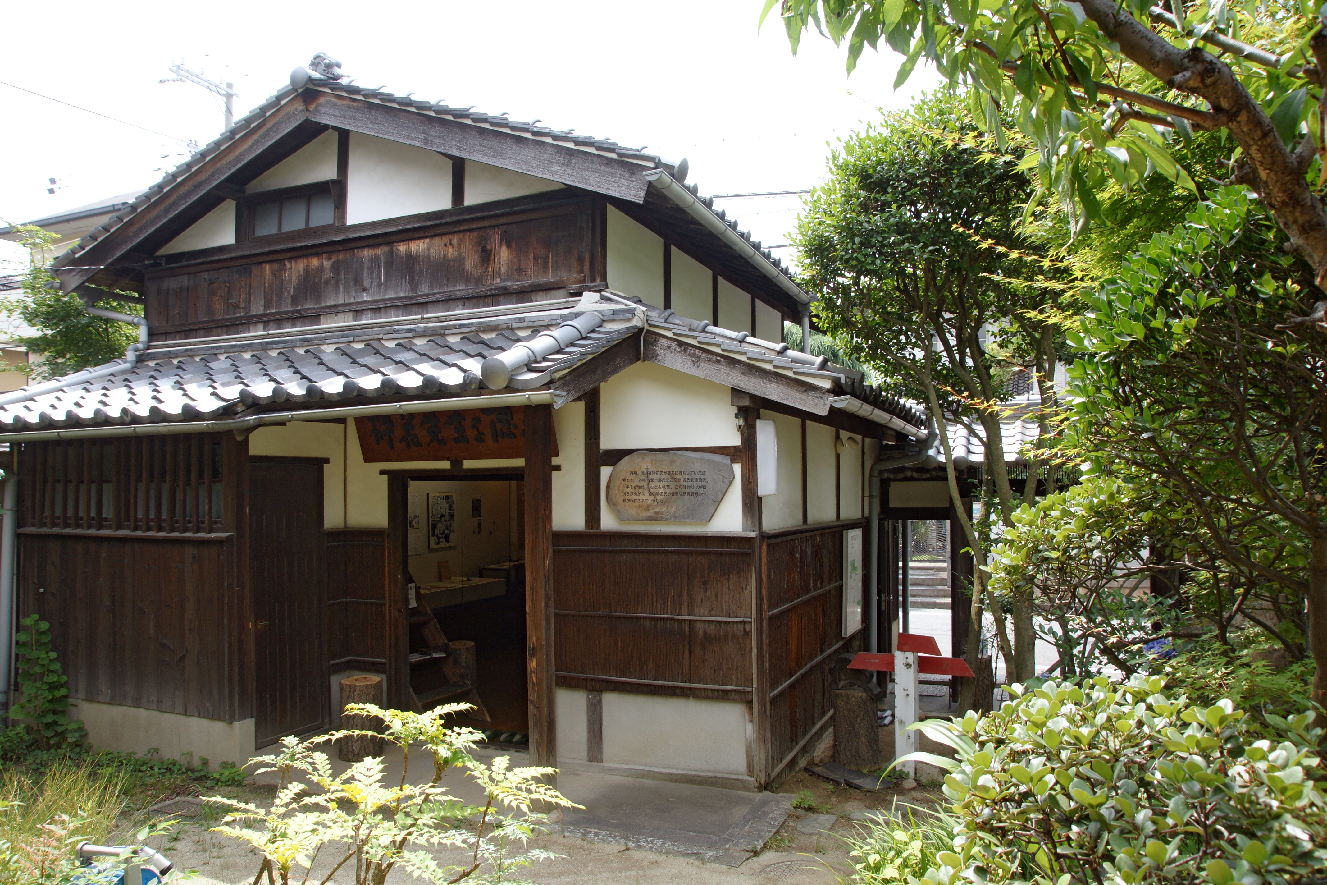 Old Saika Tomita House, Ashiya, Hyogo prefecture, Japan